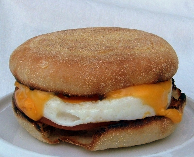 McDonald's Egg McMuffin breakfast sandwich